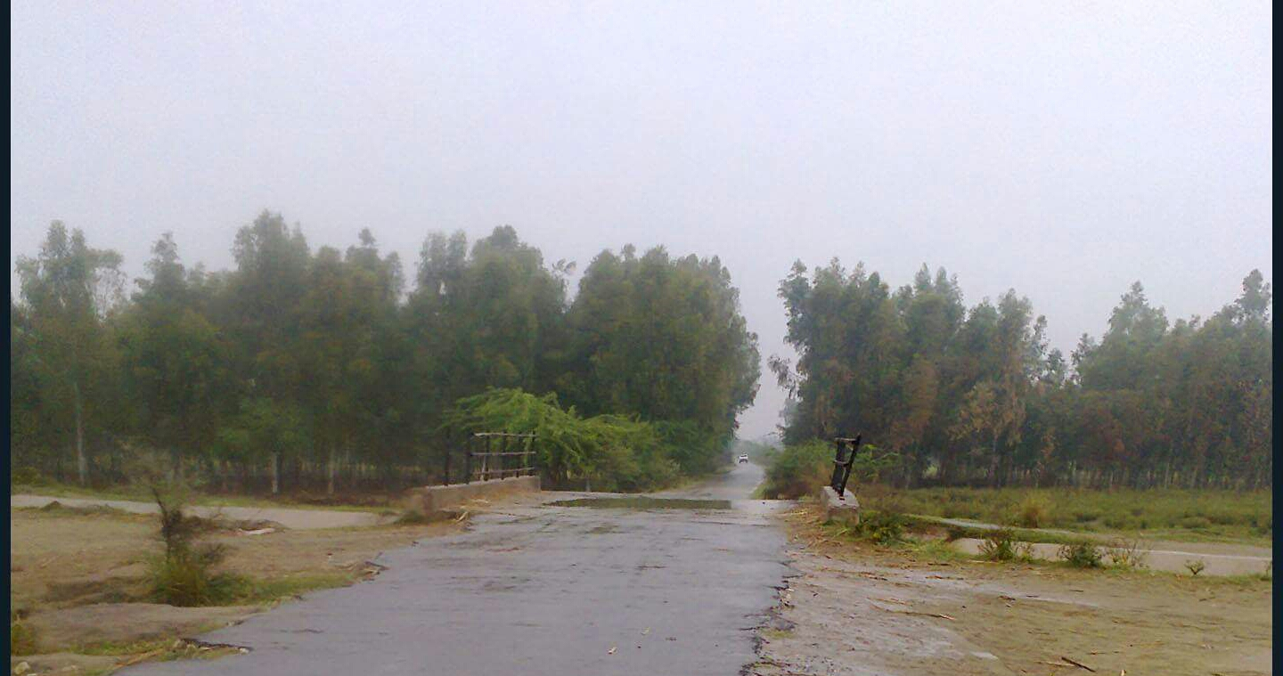 I also Uploaded this Photo on Botala Facebook Page & on website